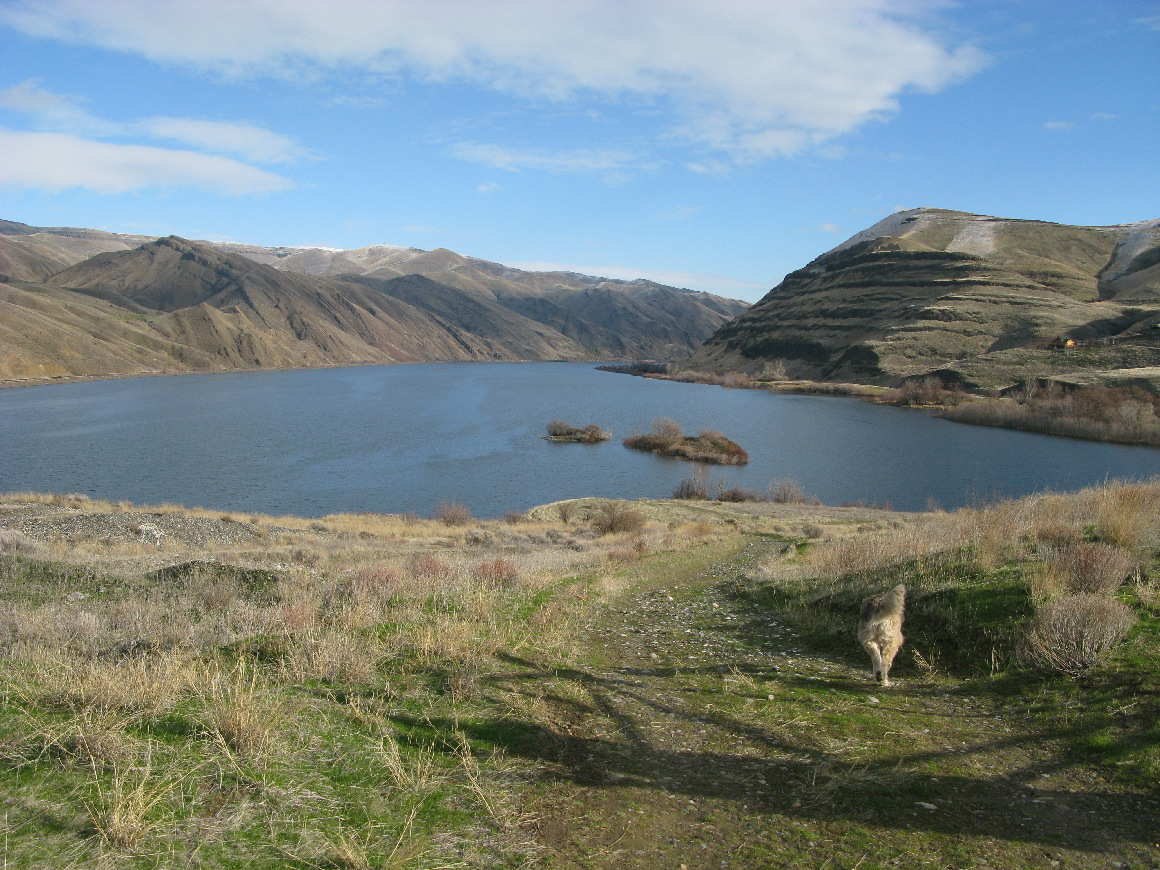 The Snake River flowing through southeastern Washington